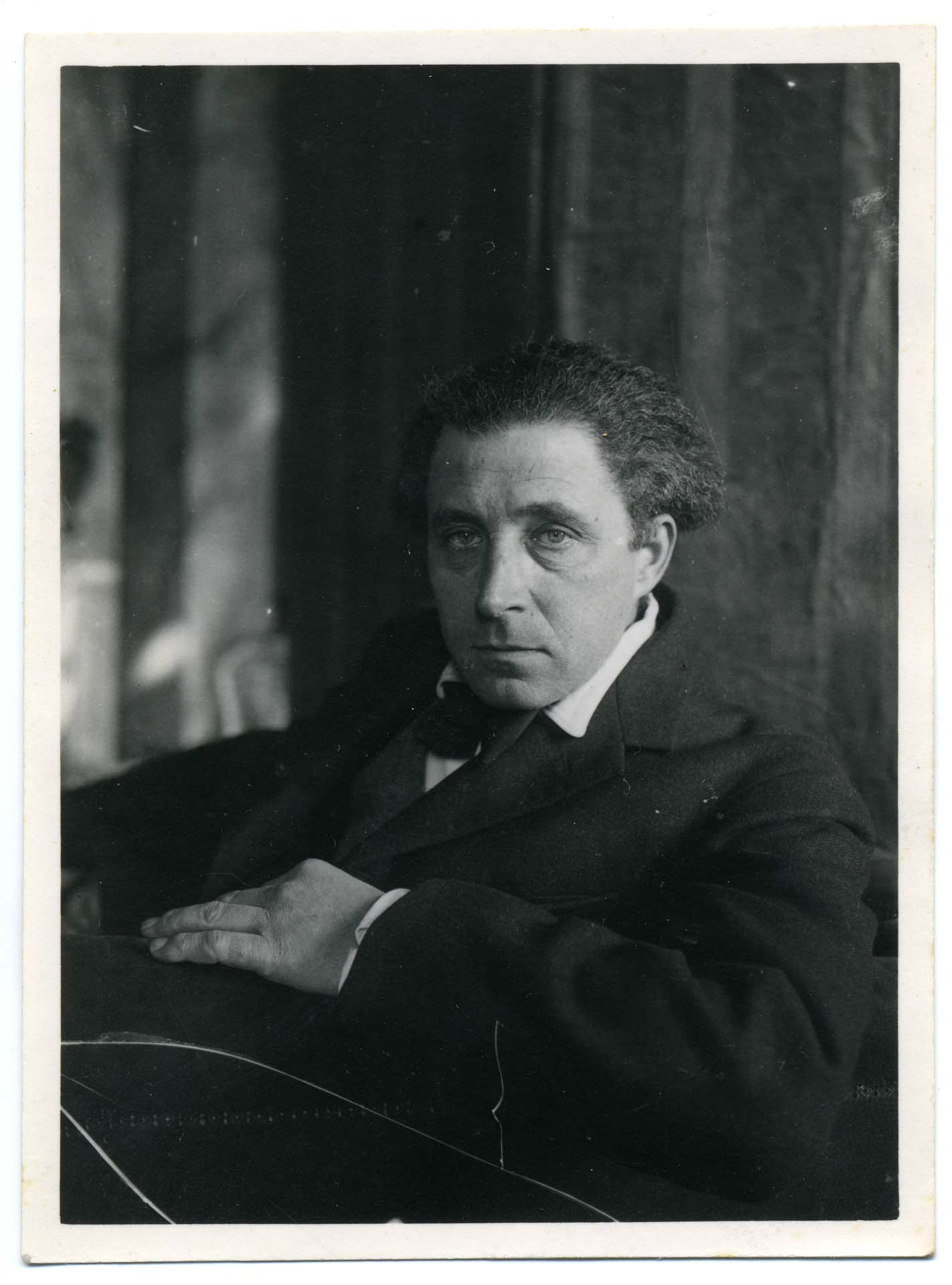 Portrait of architect Giuseppe Torres, before 1935.